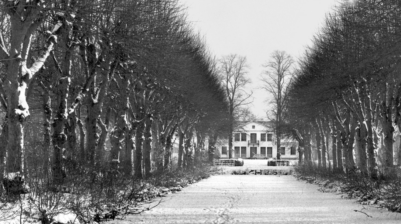 Manor Seestermühe (Slesvic-Holstein, Germany)